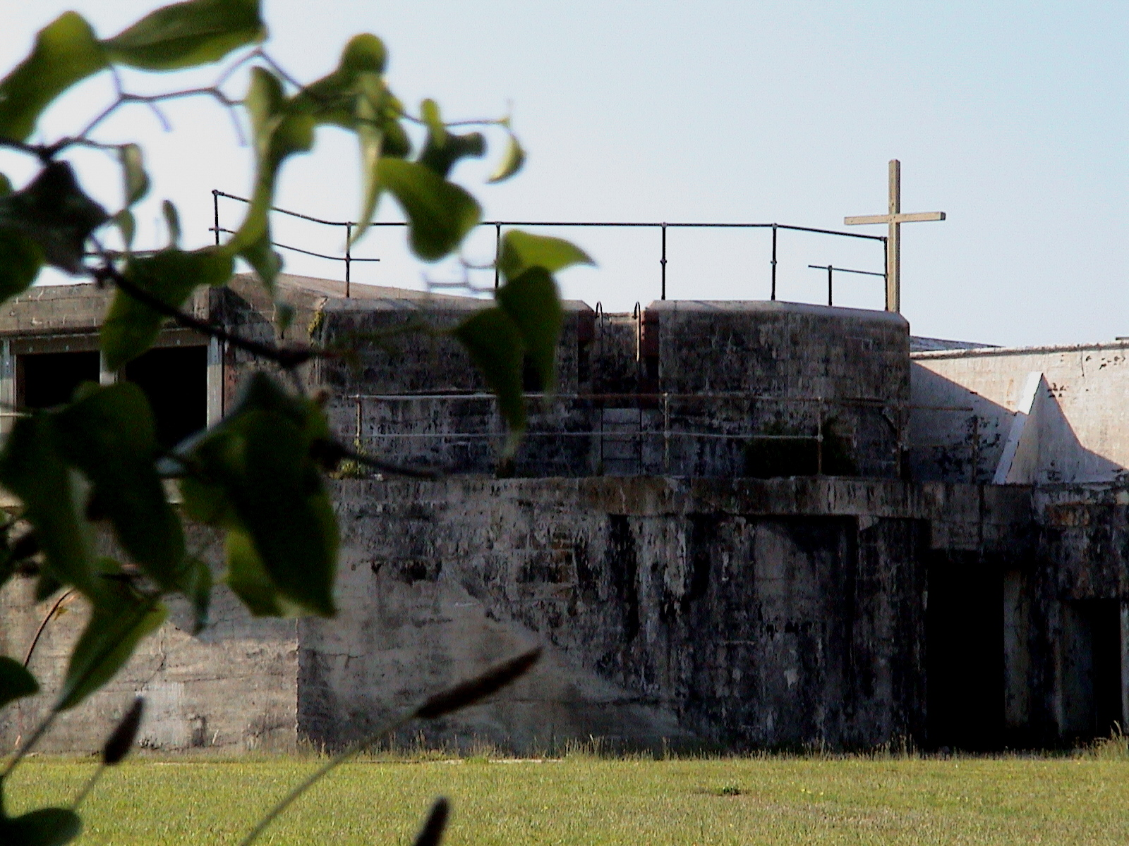 I took this picture back in 2005.